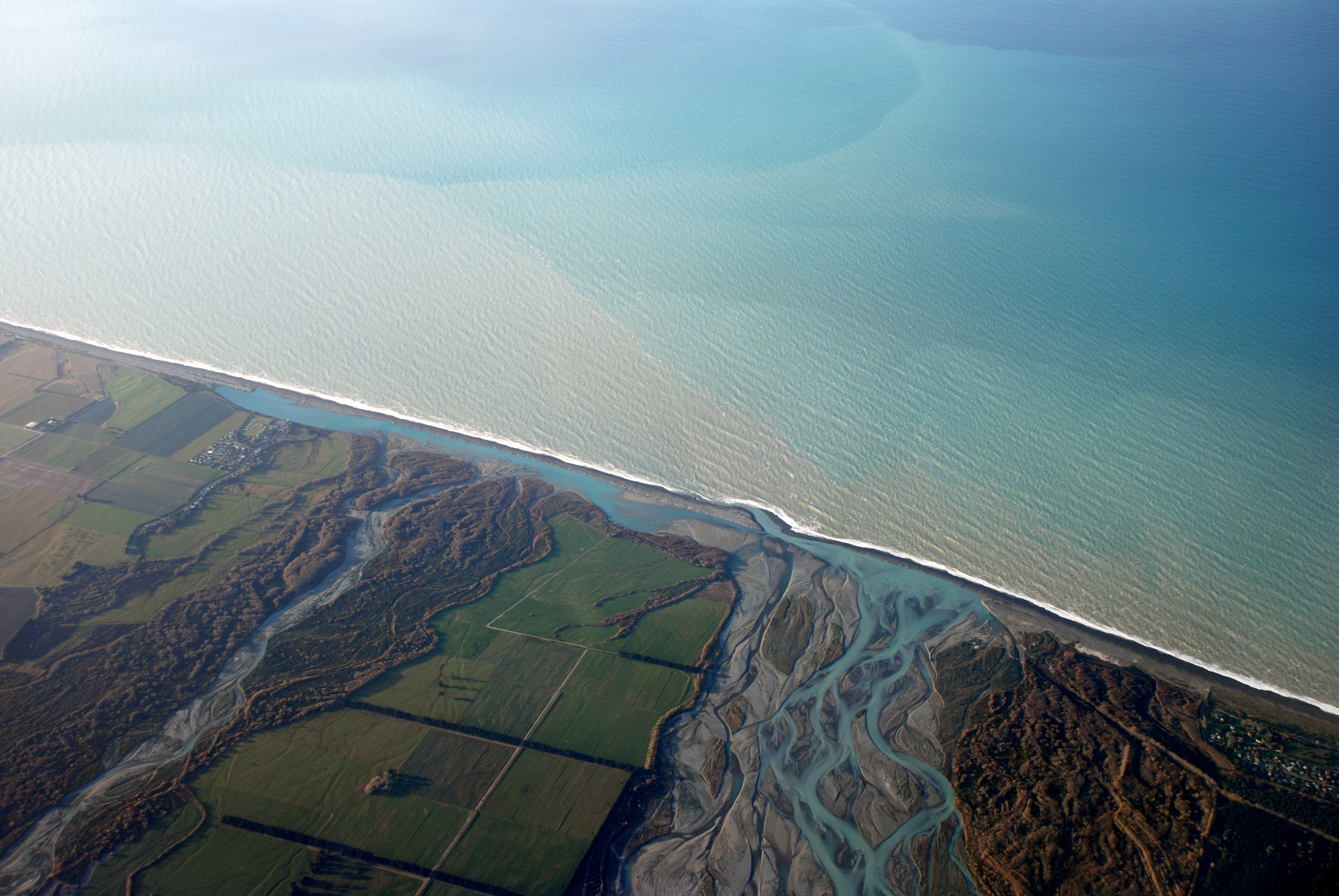 Rakaia River mouth. Taken en route Christchurch to Dunedin.